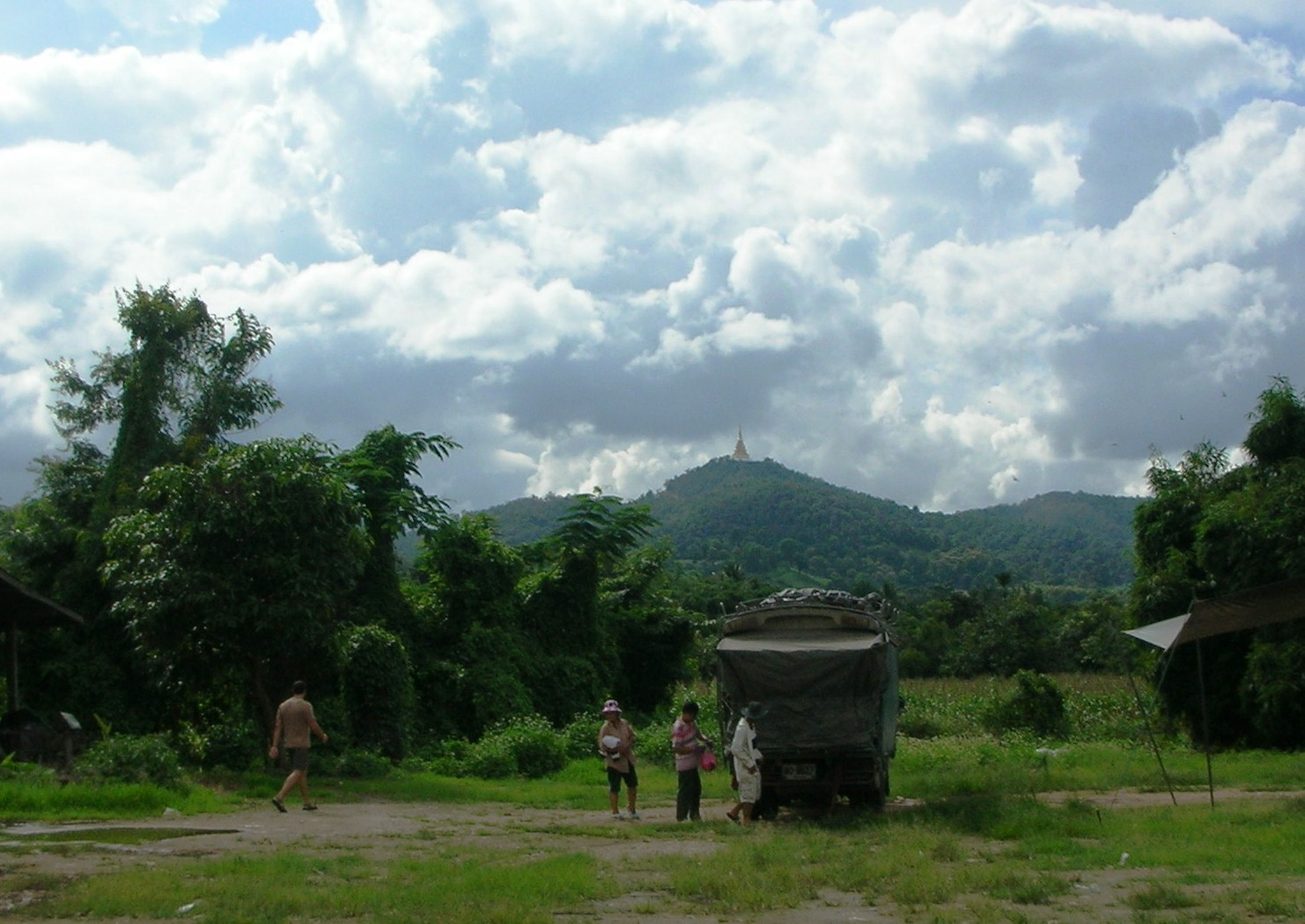 Mae Khachan, Tambun Mae Chedi, Wiang Pa Pao District, Chiang Rai Province. View of Wat Phrachao Luang (also known as Wat Phra That Mon Phrachao Lai).